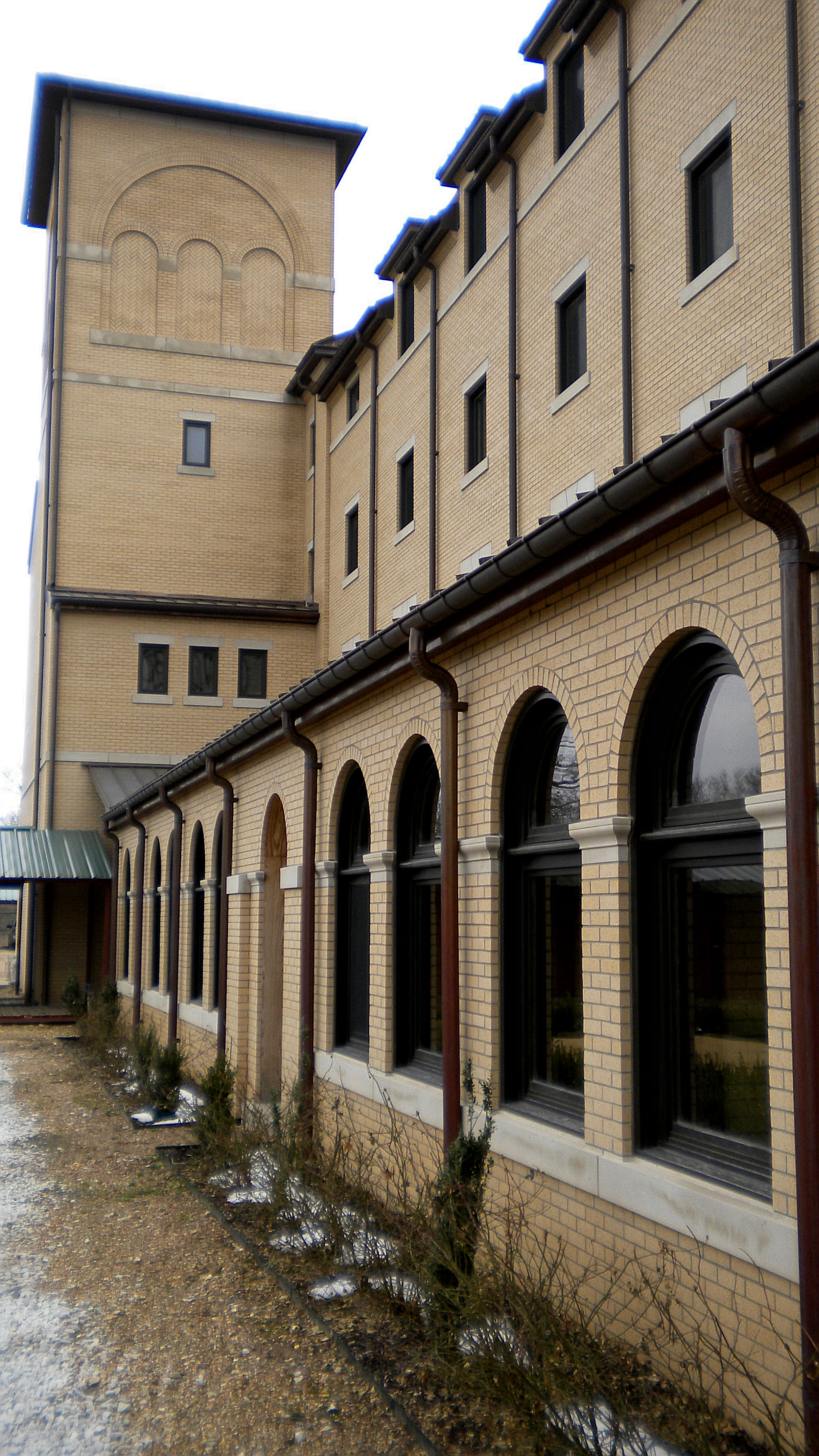 Picture of the Monastery of Our Lady of the Annunciation of Clear Creek near Hulbert, Oklahoma.